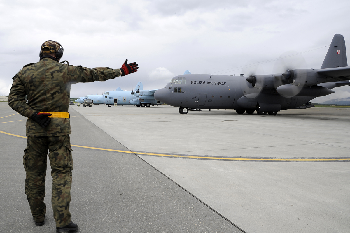 A member of the Polish Air Force C-130 Hercules crew guides the aircraft to begin to taxi to the runway during Red Flag-Alaska on Joint Base Elmendorf-Richardson June 13, 2012. The goal of Red Flag-Alaska is to provide each aircrew with vital first missions to increase their chances of survival in combat environments.